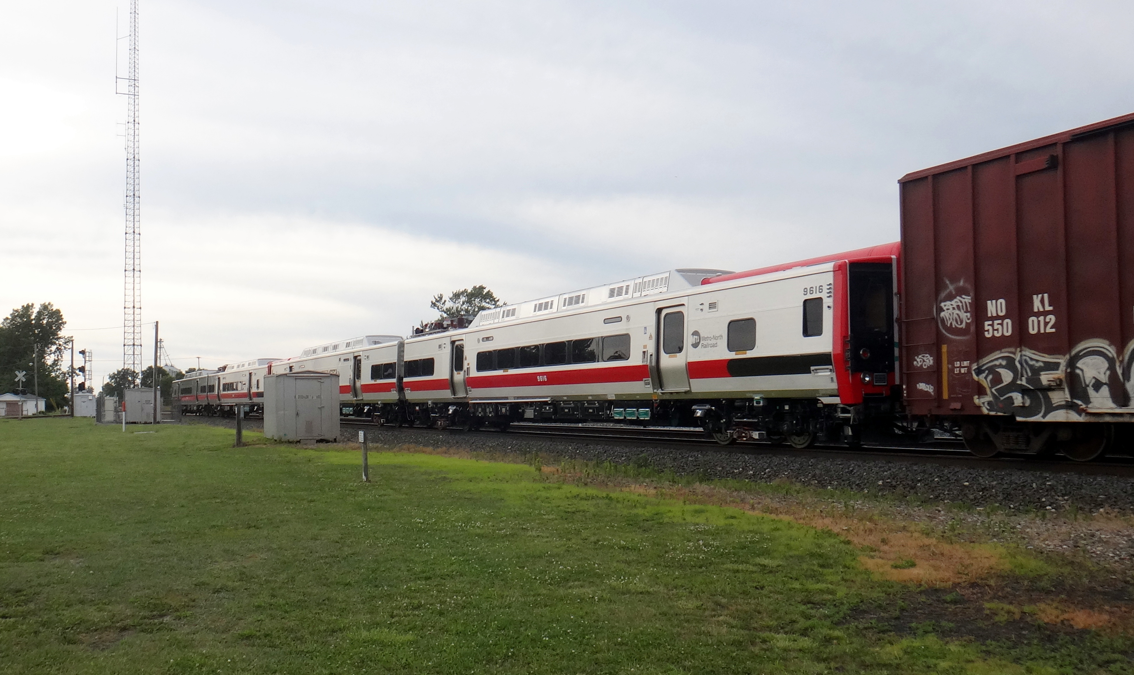 This is a photo that I took of Metro North M8s being shipped by CSX. I took this in Deshler, Ohio,United States